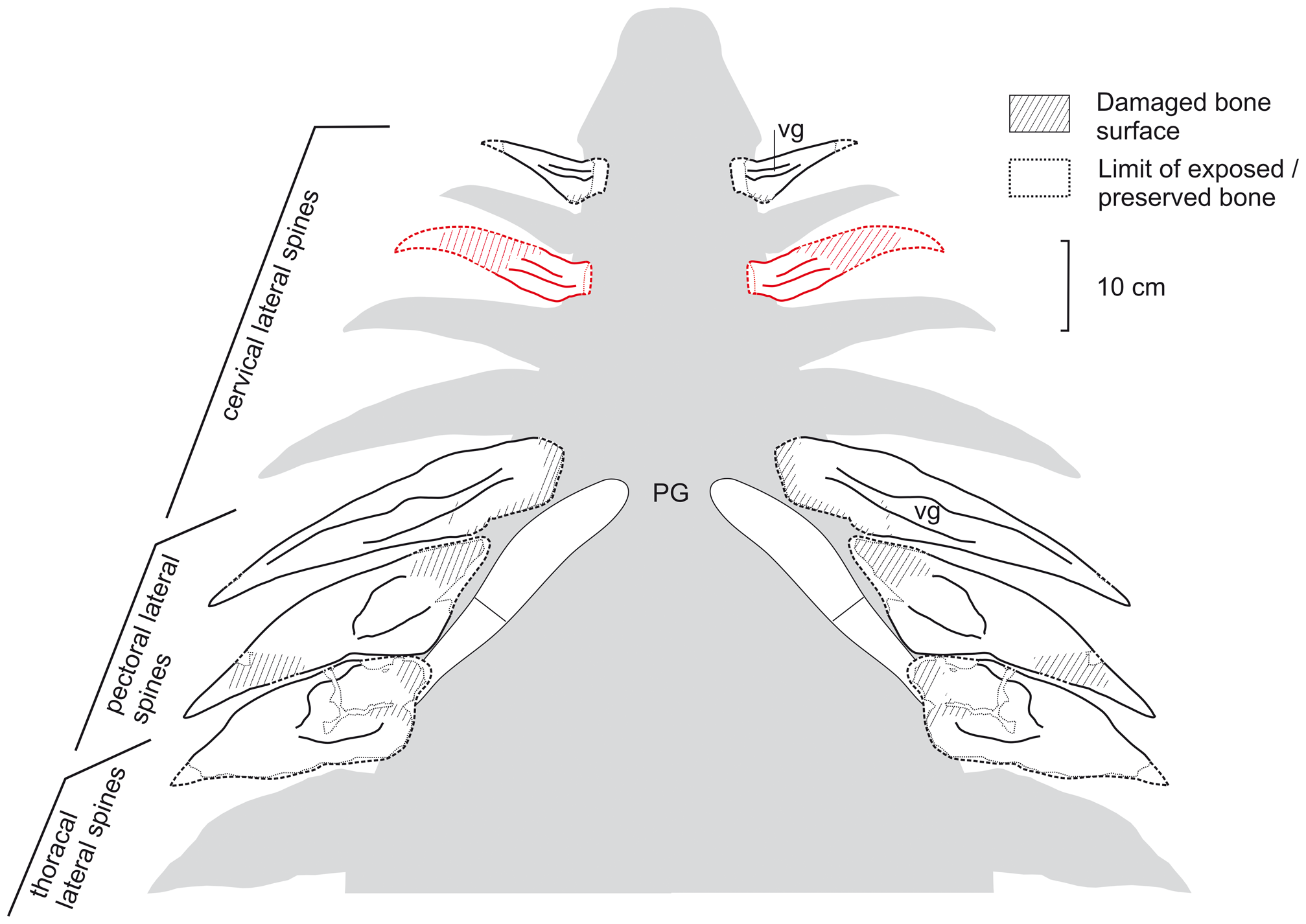 Tentative reconstruction of the lateral cervico-thoracal armor in Hylaeosaurus armatus. The reconstruction is shown in ventral aspect, based upon NMH R3775 (holotype, white elements) and added by DLM 537 (red element). No scale intended. Abbreviations: PG, pectoral girdle (approx. position, schematic); vg, ventral groove.